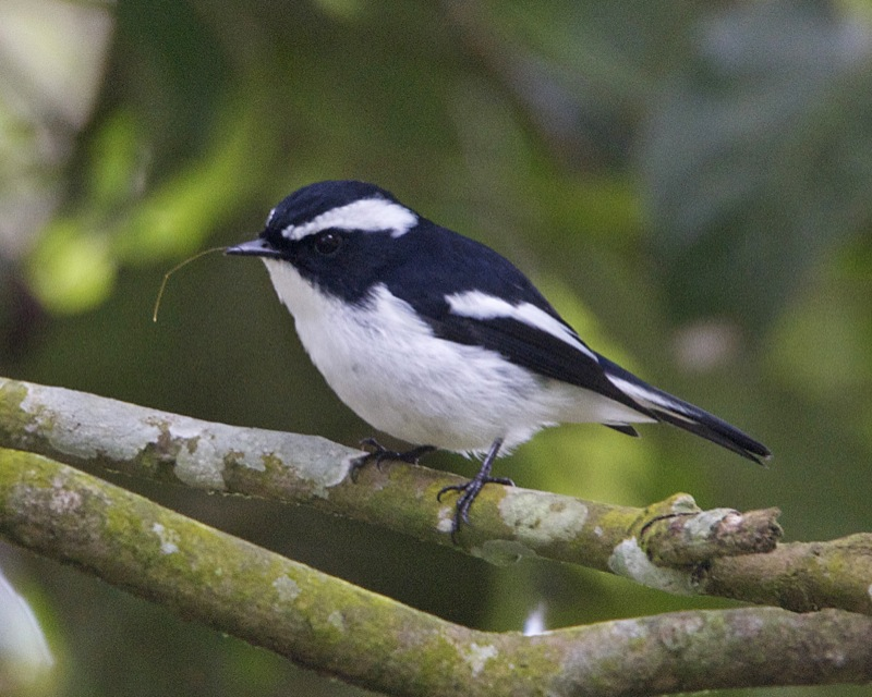 Little Pied Flycatcher at Cibodas, Java, Indonesia.